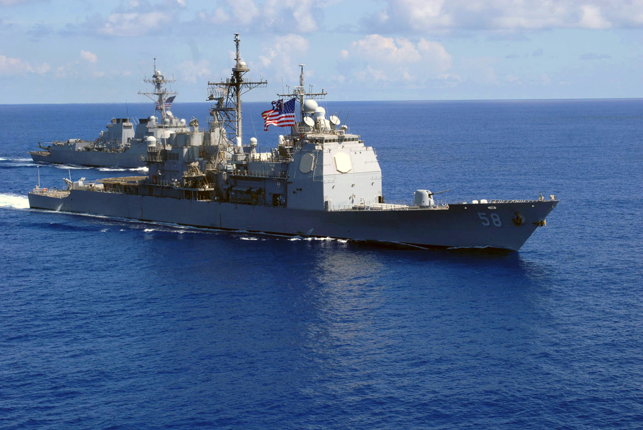 ATLANTIC OCEAN (July 5, 2008) The guided-missile cruiser USS Philippine Sea (CG 58) and the guided missile destroyer USS Bulkeley (DDG 84) transit westward in the Atlantic Ocean as part of the Nassau Expeditionary Strike Group. The Nassau Expeditionary Strike Group is completing its deployment to the U.S. 5th and 6th Fleet areas of responsibility. U.S. Navy photo by (Released)